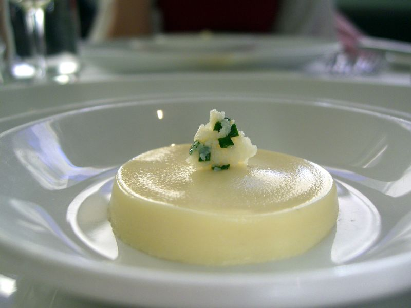 Parmesan Pannacotta - Lake House Restaurant, Daylesford. Complimentary amuse bouche. This light and smooth pannacotta was creamy, yet not heavy, a great start to the meal! Lake House Restaurant King St Daylesford 3460 Victoria, Australia